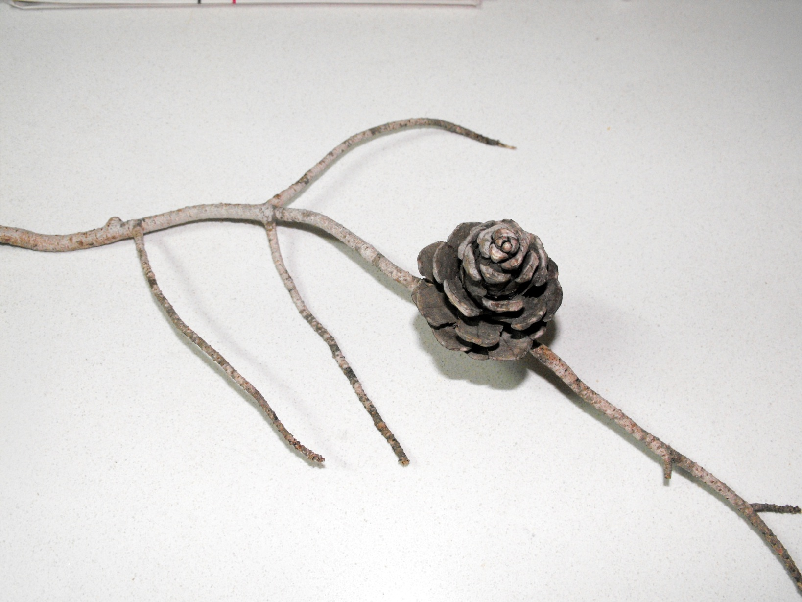 Plants of Israel